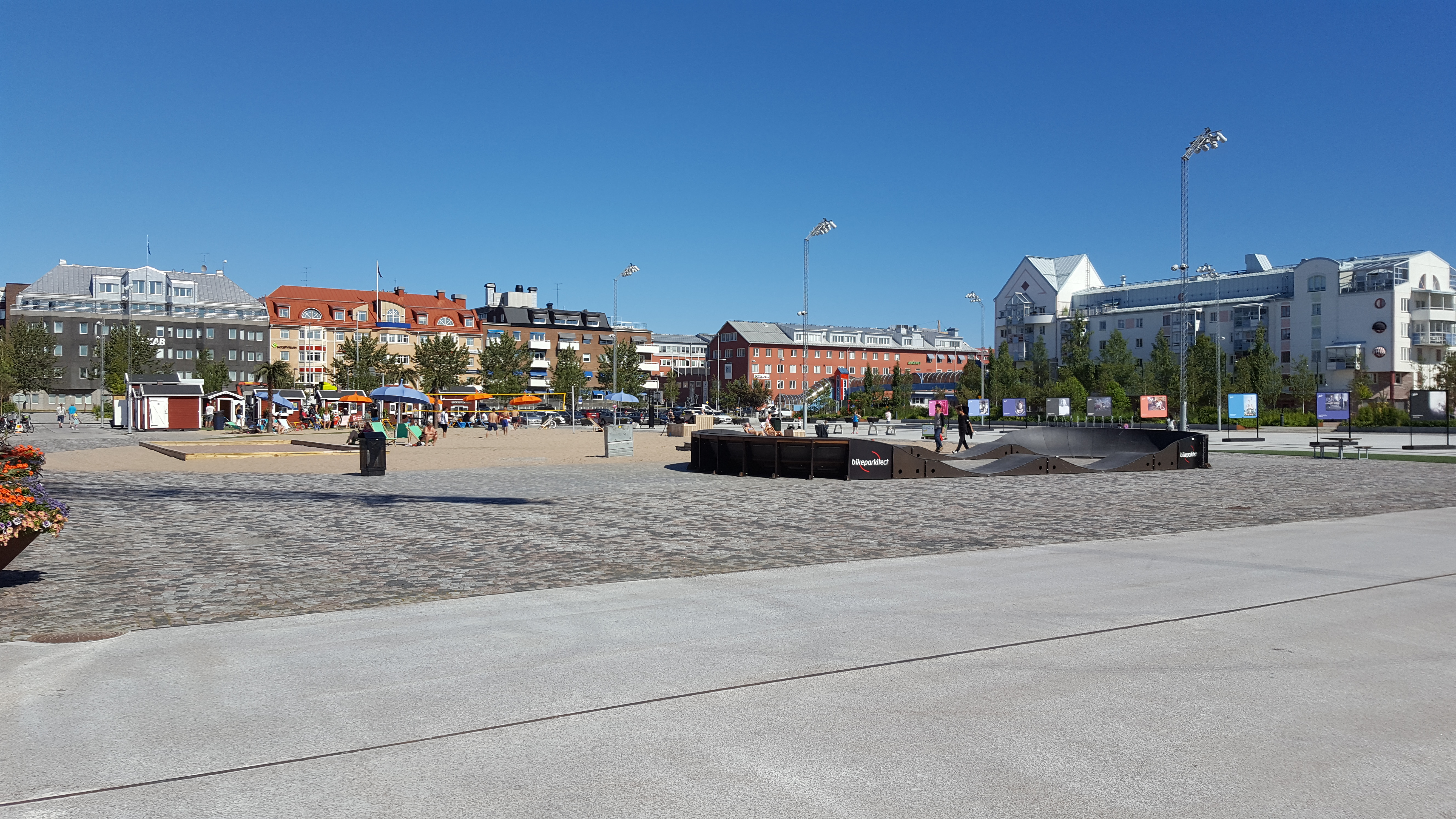 Södrahamnplan in Luleå